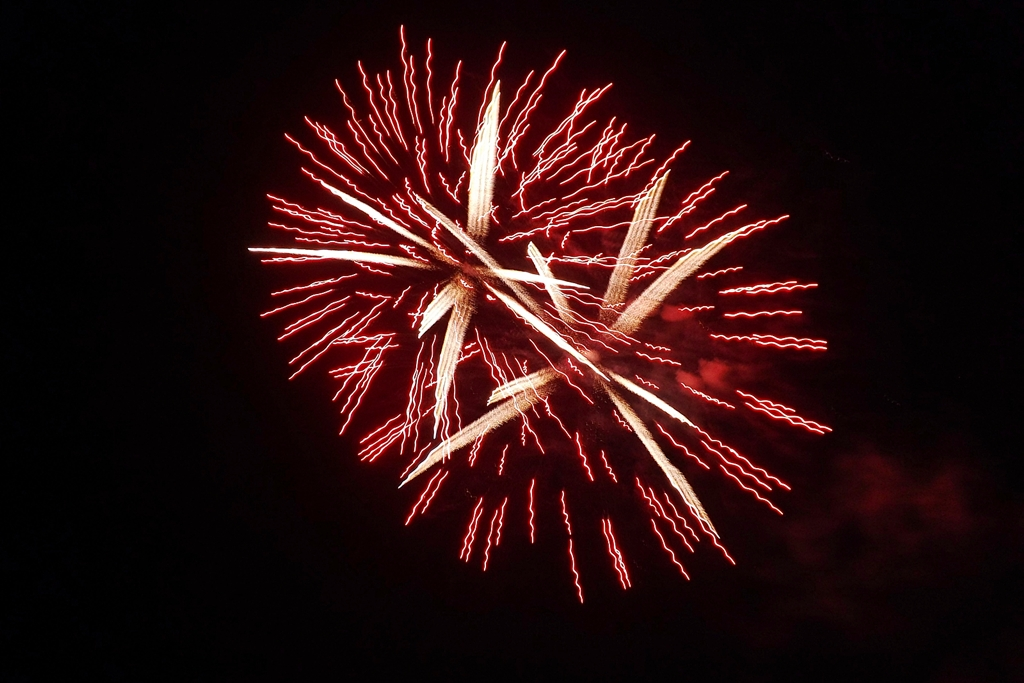 Firework display at Dalmuir Park